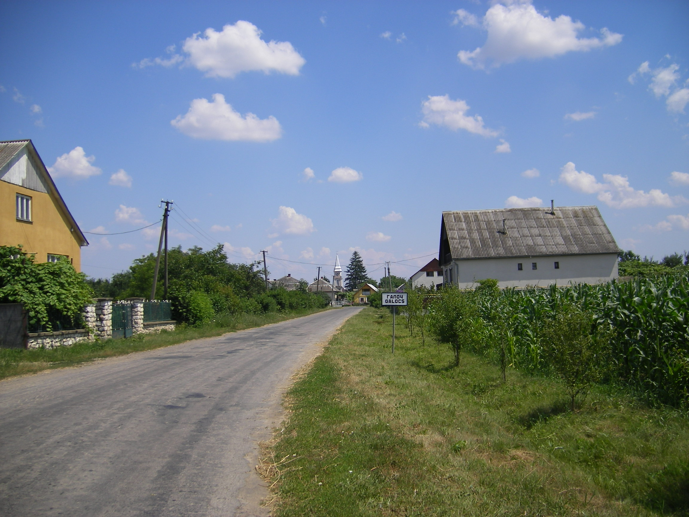 Galoch, Uzhhorod Raion